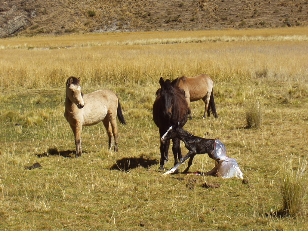 The colt tried to stand up because of the threat, but it kept slipping back down on the afterbirth.